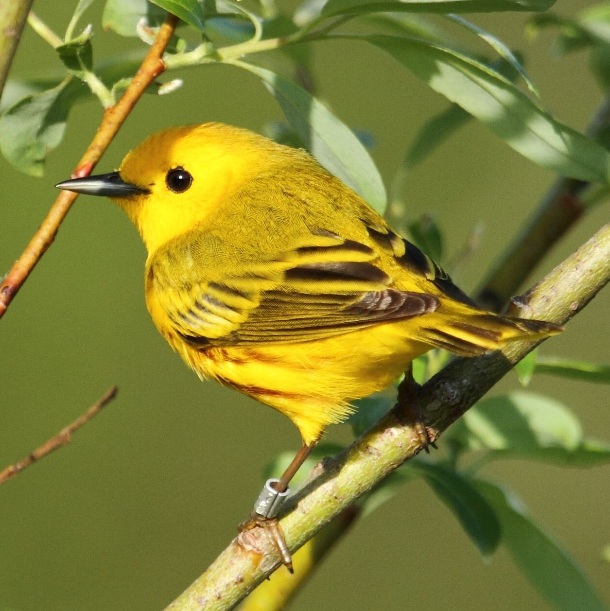 Yellow Warbler, banded, Léon-Provancher marsh, Québec, Canada.